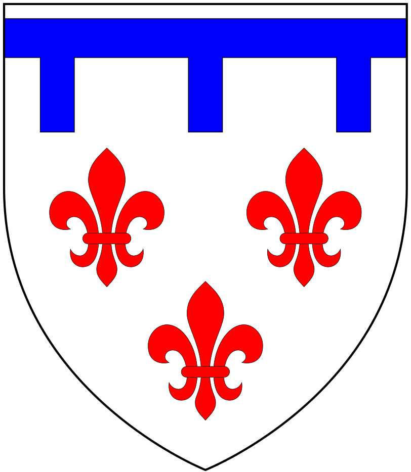 Arms of Scobhull (alias Scobhill, Scobhul, Scobbahull, etc) of Scobhull (now "Scoble" (Pevsner, Nikolaus & Cherry, Bridget, The Buildings of England: Devon, London, 2004, p.752)) in the parish of South Pool near Kingsbridge, Devon (Prince, John, (1643–1723) The Worthies of Devon, 1810 edition, London, p.554; Pole, p.289): Argent, three fleurs-de-lys gules a label of three points azure (Pole, Sir William (d.1635), Collections Towards a Description of the County of Devon, Sir John-William de la Pole (ed.), London, 1791, pp.501, 289). Quartered by Kirkham of Blagdon